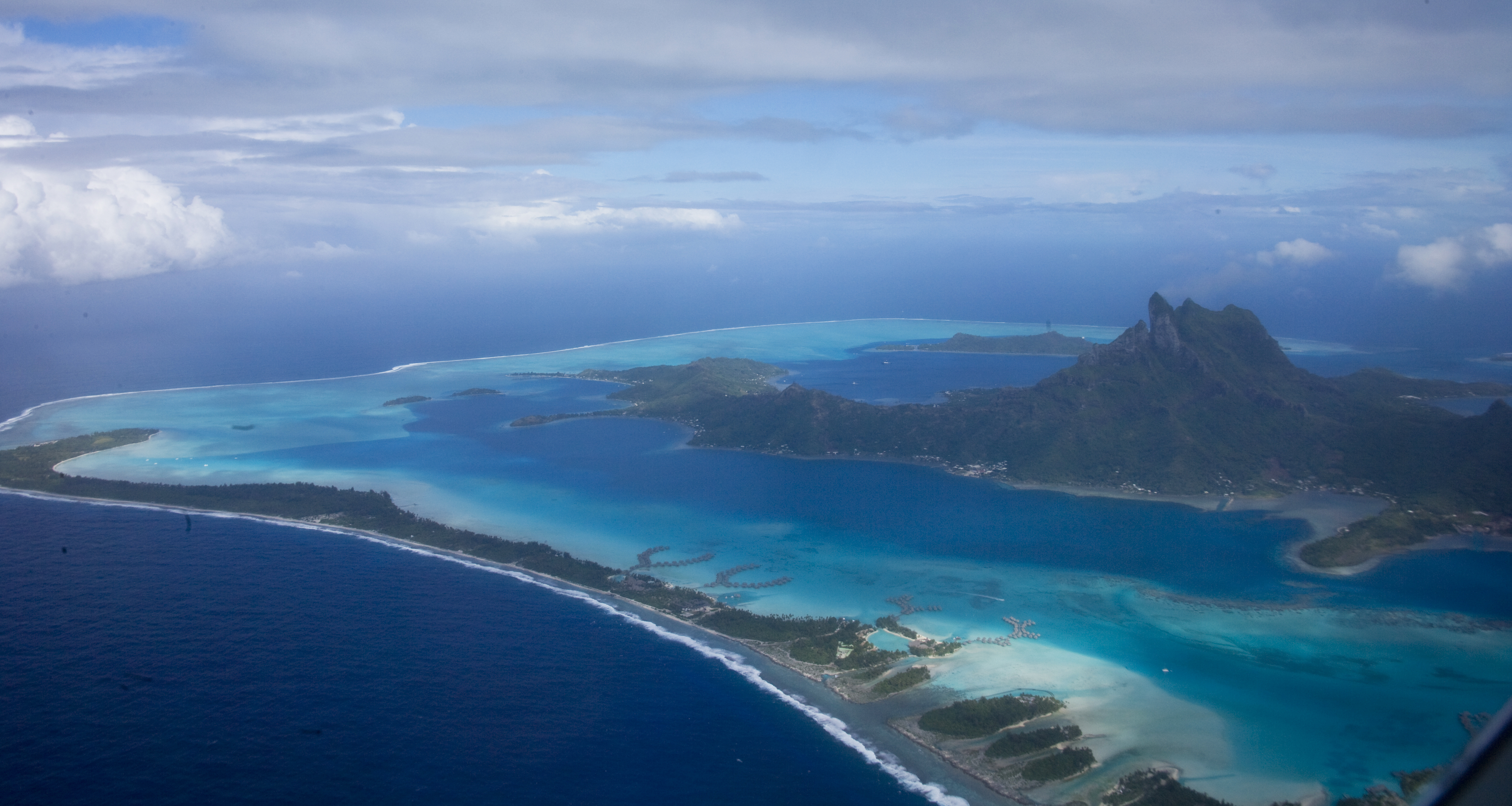 Bora Bora is an island in the Leeward group of the Society Islands of French Polynesia, an overseas collectivity of France in the Pacific Ocean. The island, located about 230 kilometres (143 miles) northwest of Papeete, is surrounded by a lagoon and a barrier reef. In the centre of the island are the remnants of an extinct volcano rising to two peaks, Mount Pahia and Mount Otemanu, the highest point at 727 metres (2,385 feet). Bora Bora is a major international tourist destination, famous for its aqua-centric luxury resorts. The major settlement, Vaitape, is on the western side of the main island, opposite the main channel into the lagoon. Produce of the island is mostly limited to what can be obtained from the sea and the plentiful coconut trees, which were historically of economic importance for copra. According to a 2008 census, Bora Bora has a permanent population of 8,880.